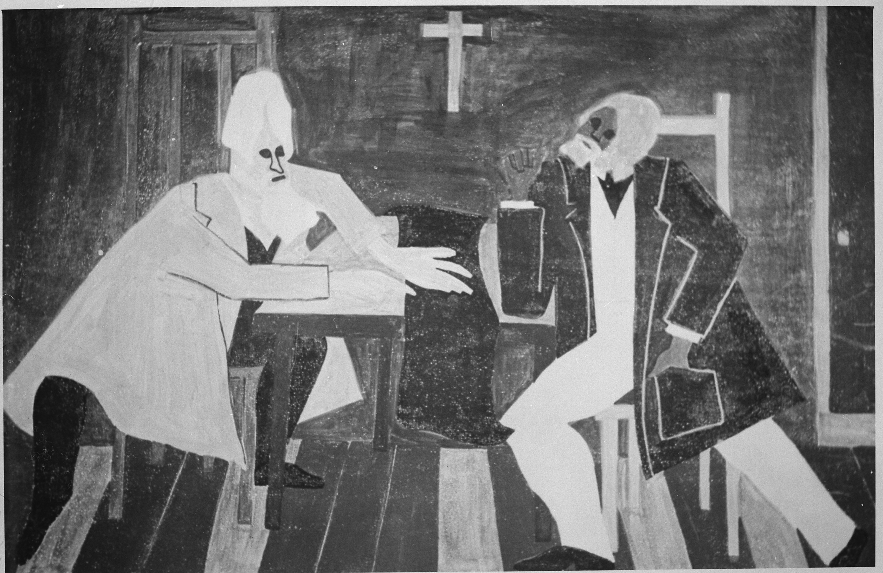 General notes: Painting